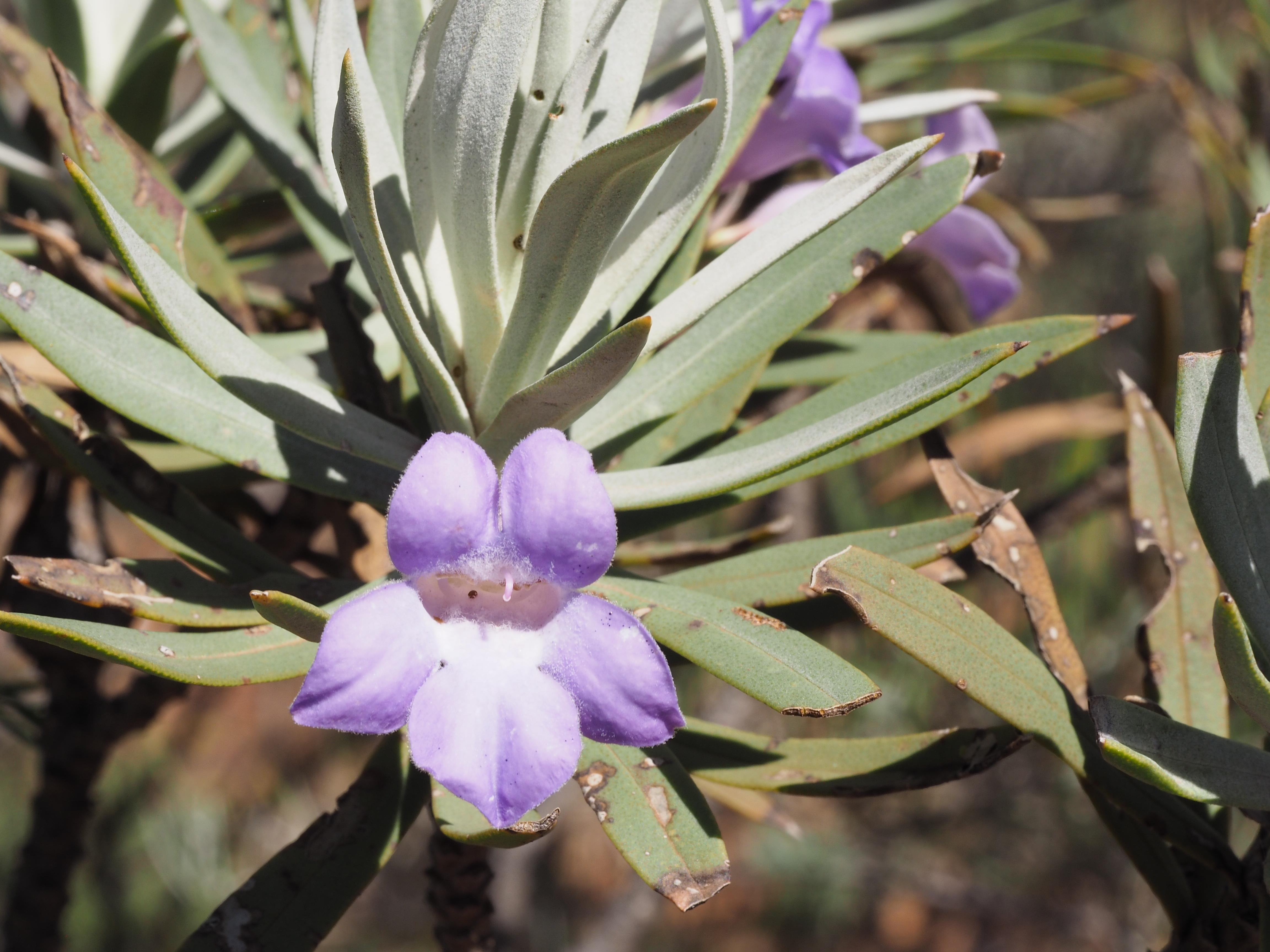 Eremophila rigens growing 23km east of "Pingandy"